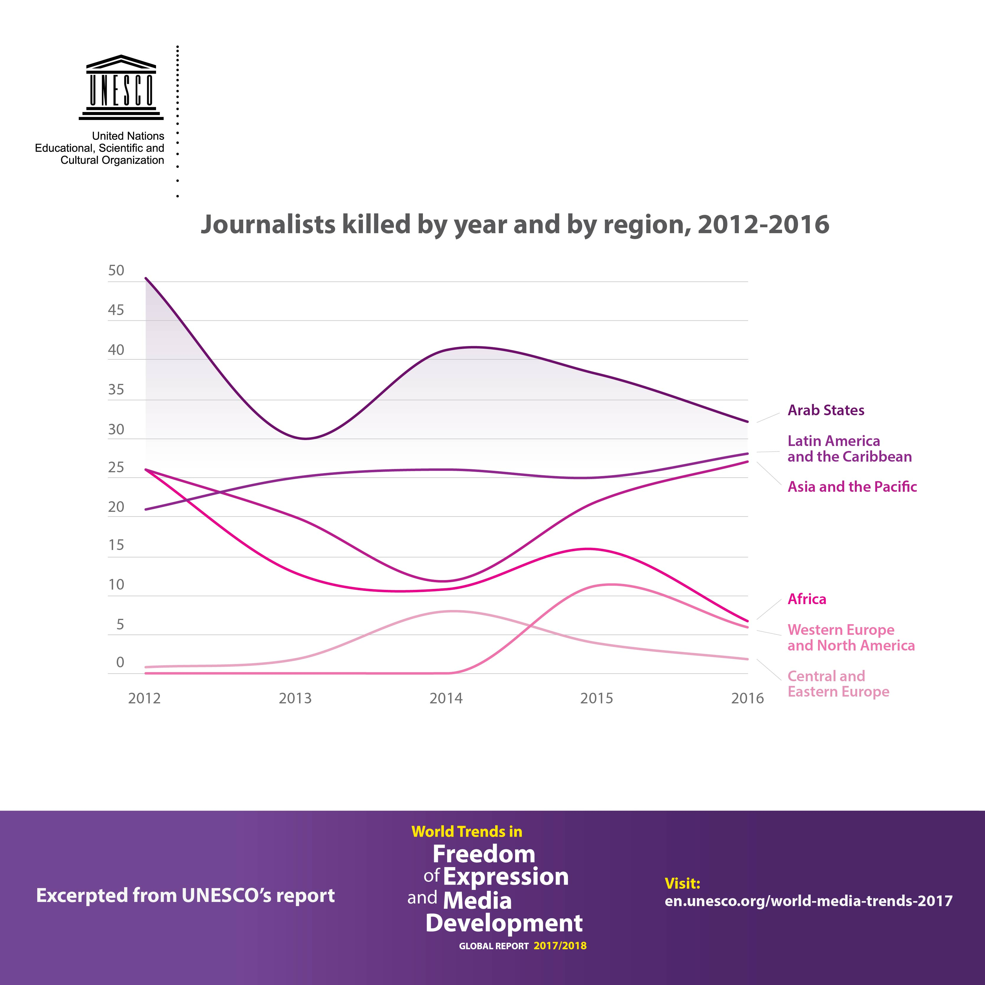 UNESCO's graph: number of journalists killed by year and region from World Trends in Freedom of Expression and Media Development Global Report.